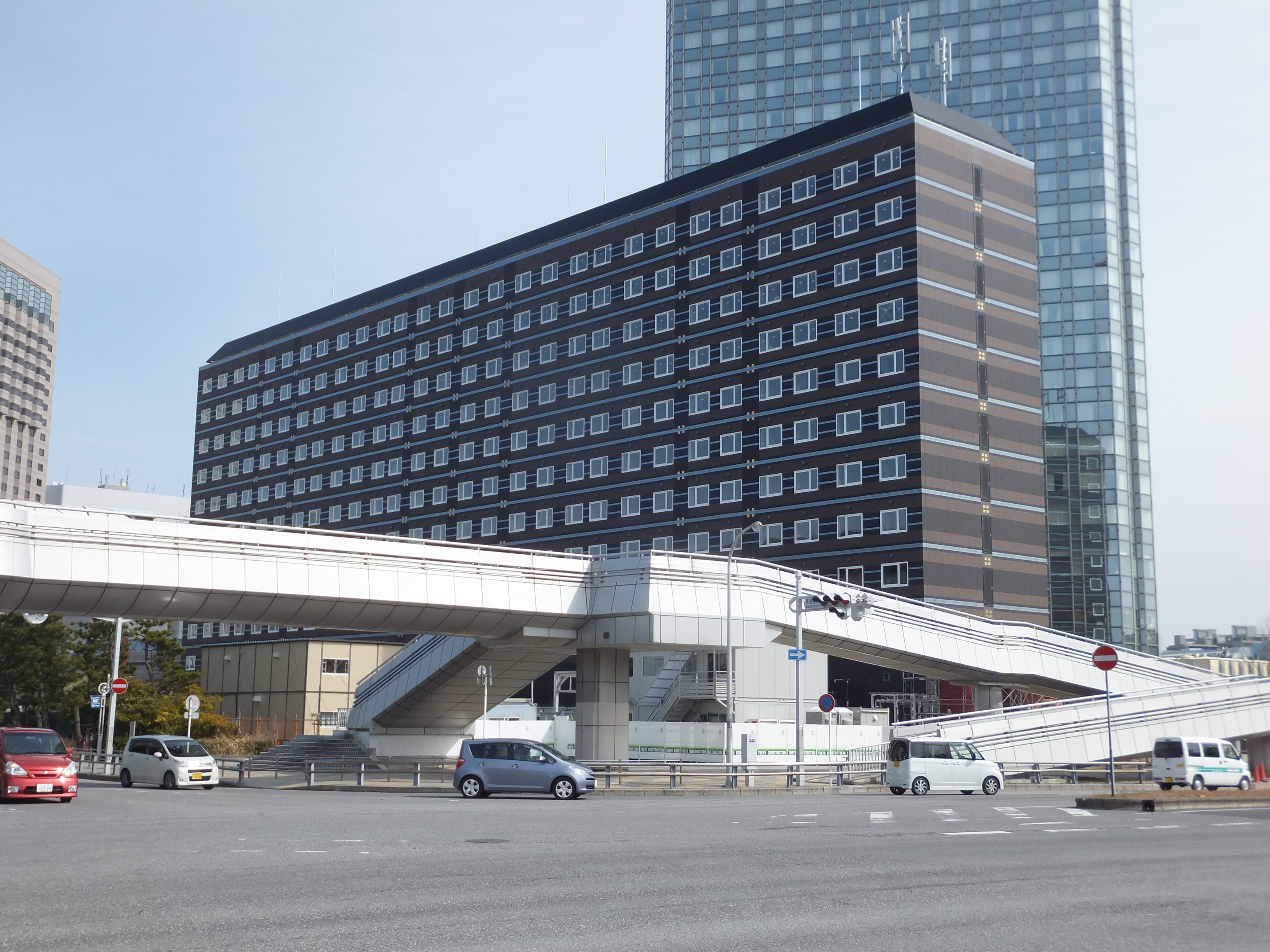 APA Hotel&Resort Tokyo-Bay Makuhari, in the city of Chiba, Japan